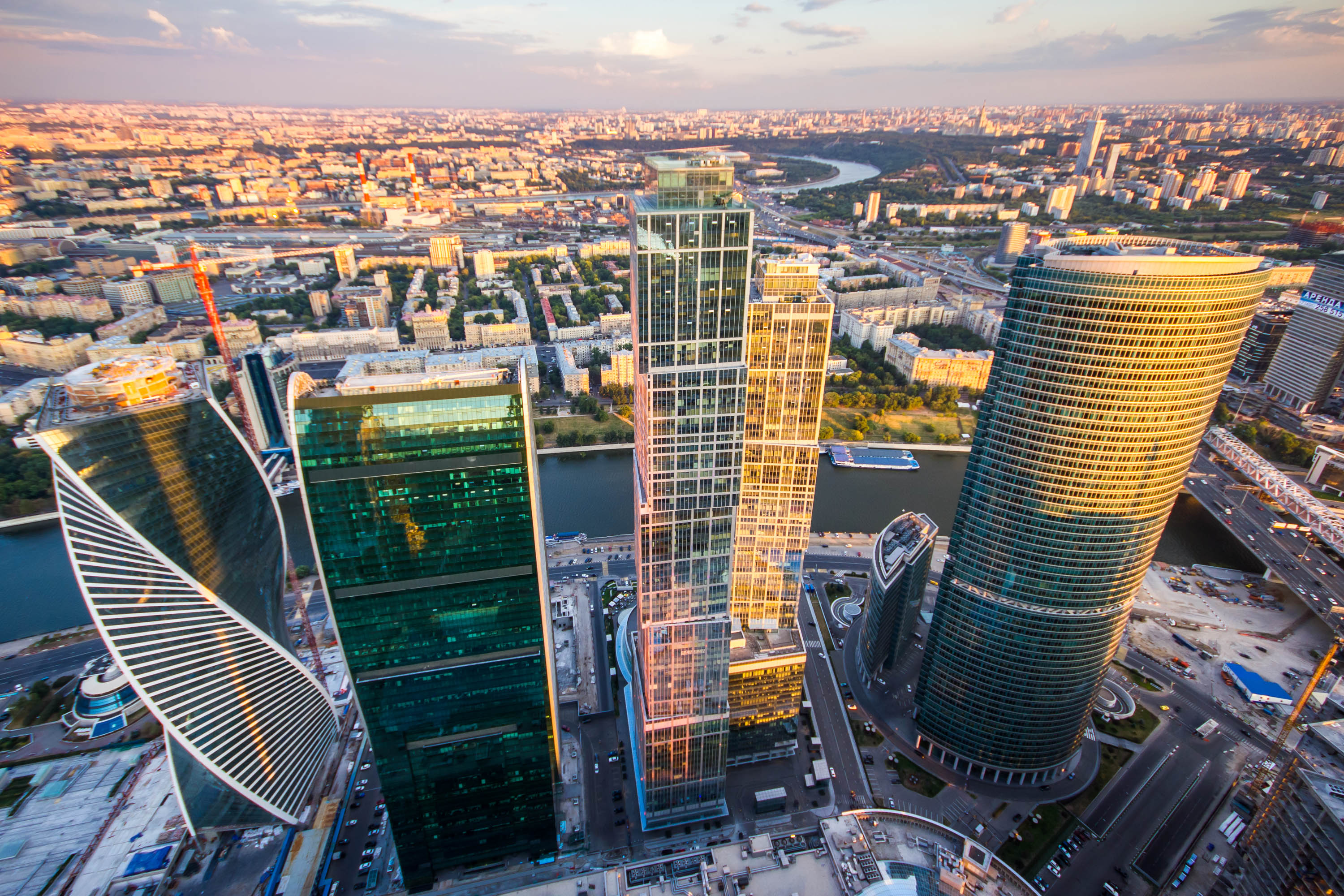 Federation Tower views